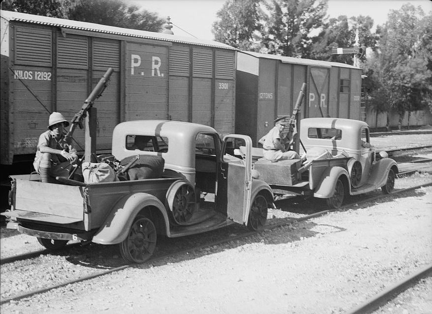 Palestine Railways in 1936. Two pick-up trucks have been converted into rail vehicles, each armed with a machine gun, to patrol against the Arab Revolt.